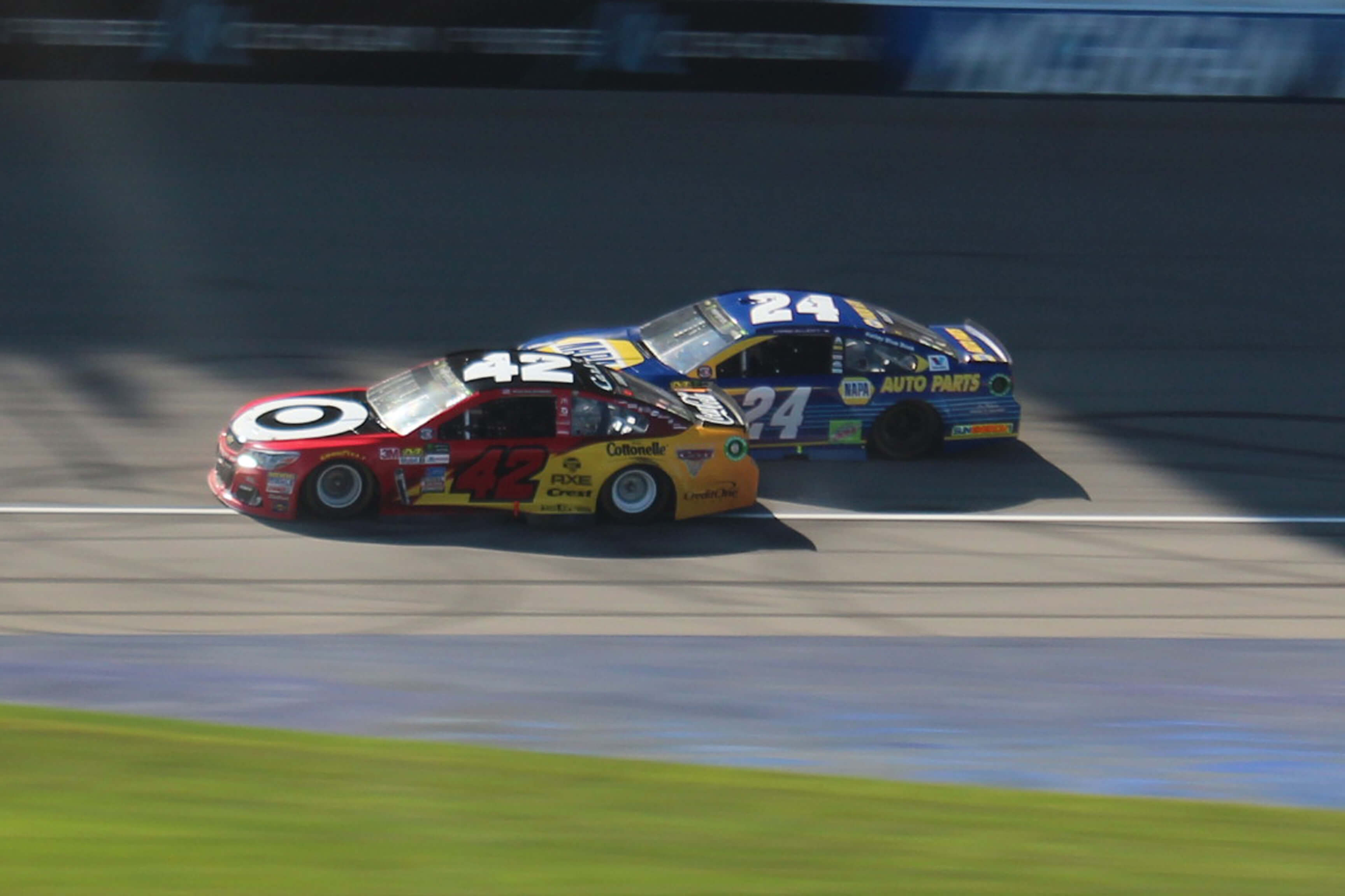 (Joseph Tregembo-Photographer)